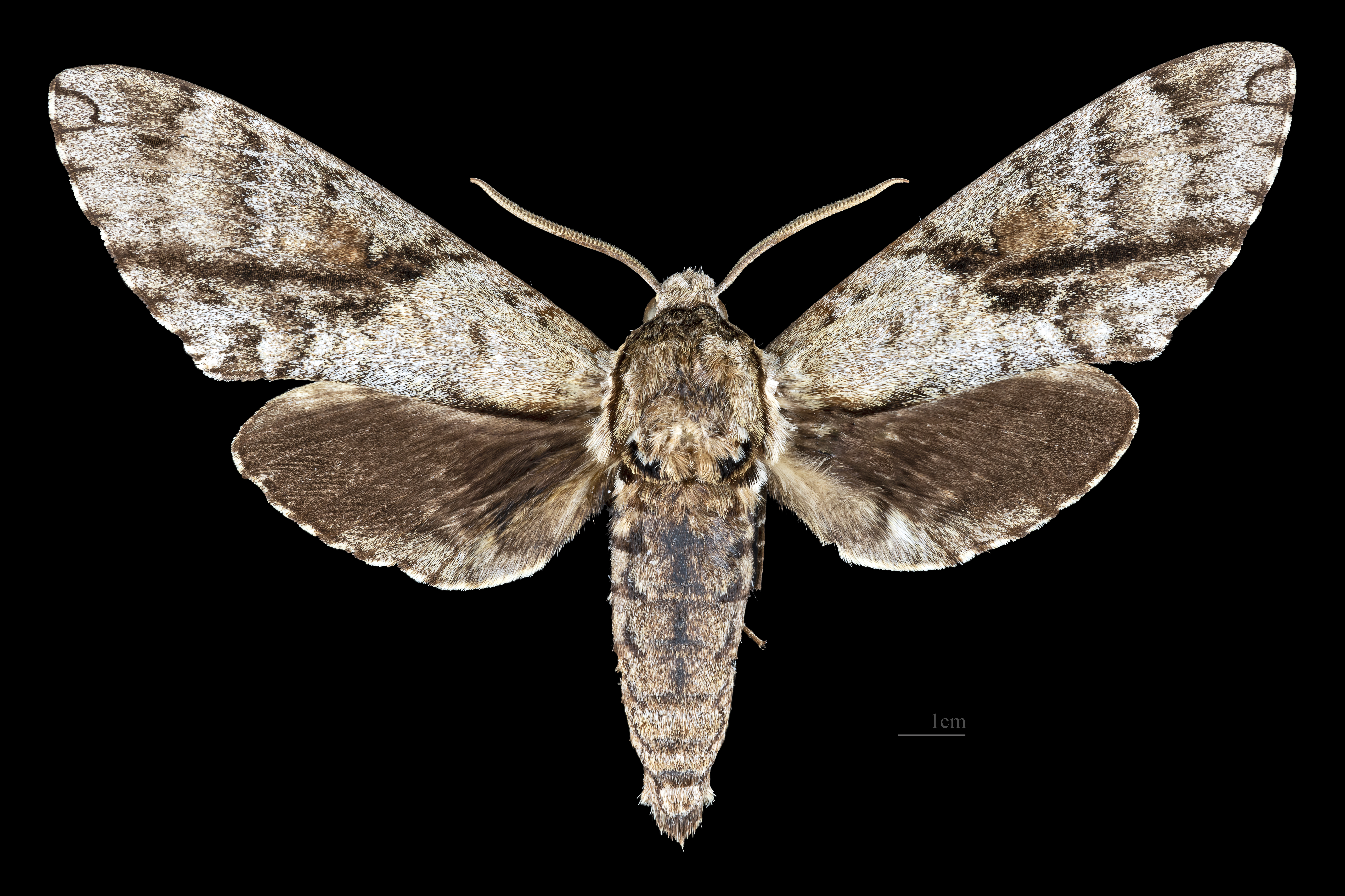 Manduca jasminearum - Dorsal side Collection of the Mathematician Laurent Schwartz